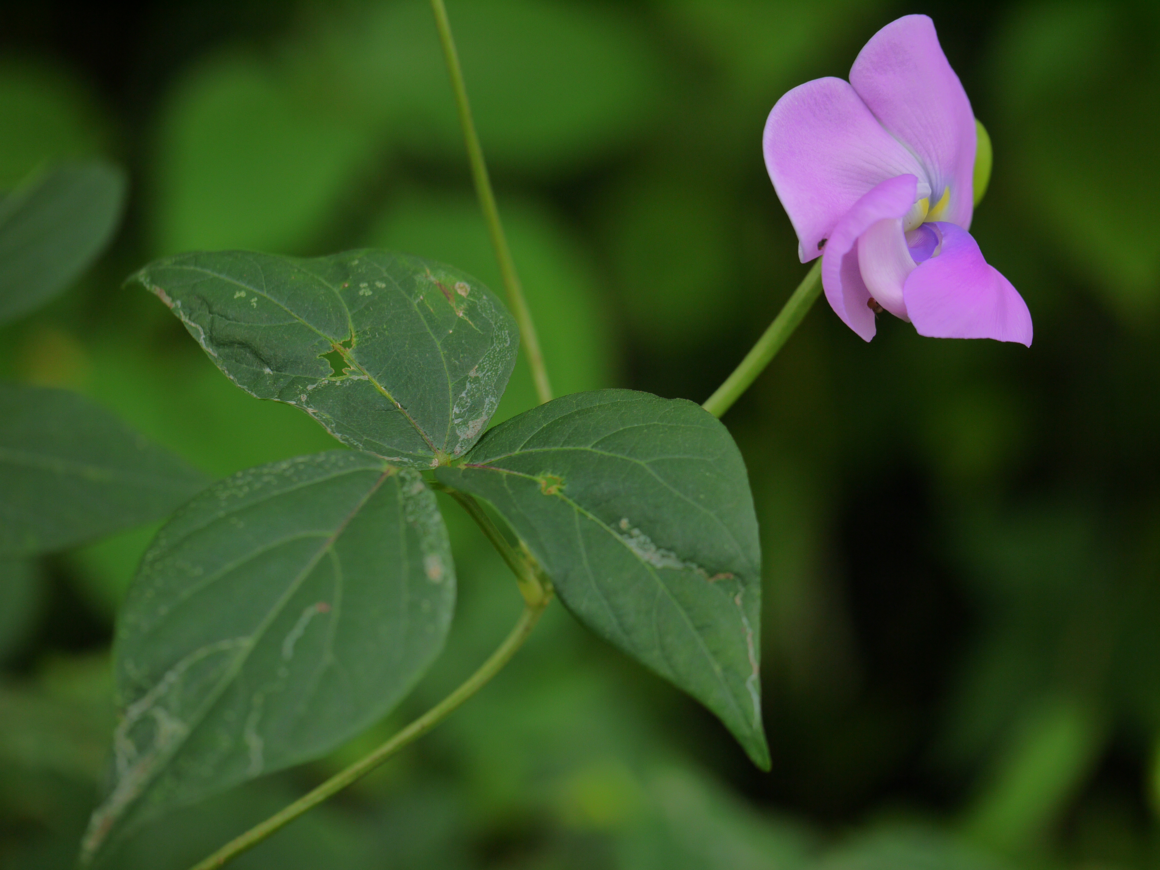 Fabaceae (pea, or legume family) » Vigna vexillata VIG-nuh -- named for Prof. Dominico Vigna, 17th century Italian botanist vek-see-LAH-tuh -- from Latin vexillum - a standard or flag commonly known as: wild cowpea, wild mung, zombi pea • Marathi: हळुंदा halunda Native to: throughout tropics & subtropics; also cultivated References: Flowers of India • EcoPort • ILDIS • NPGS / GRIN